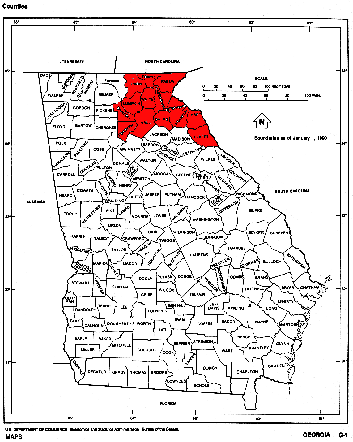 Edited U.S. Census Bureau data in w: .